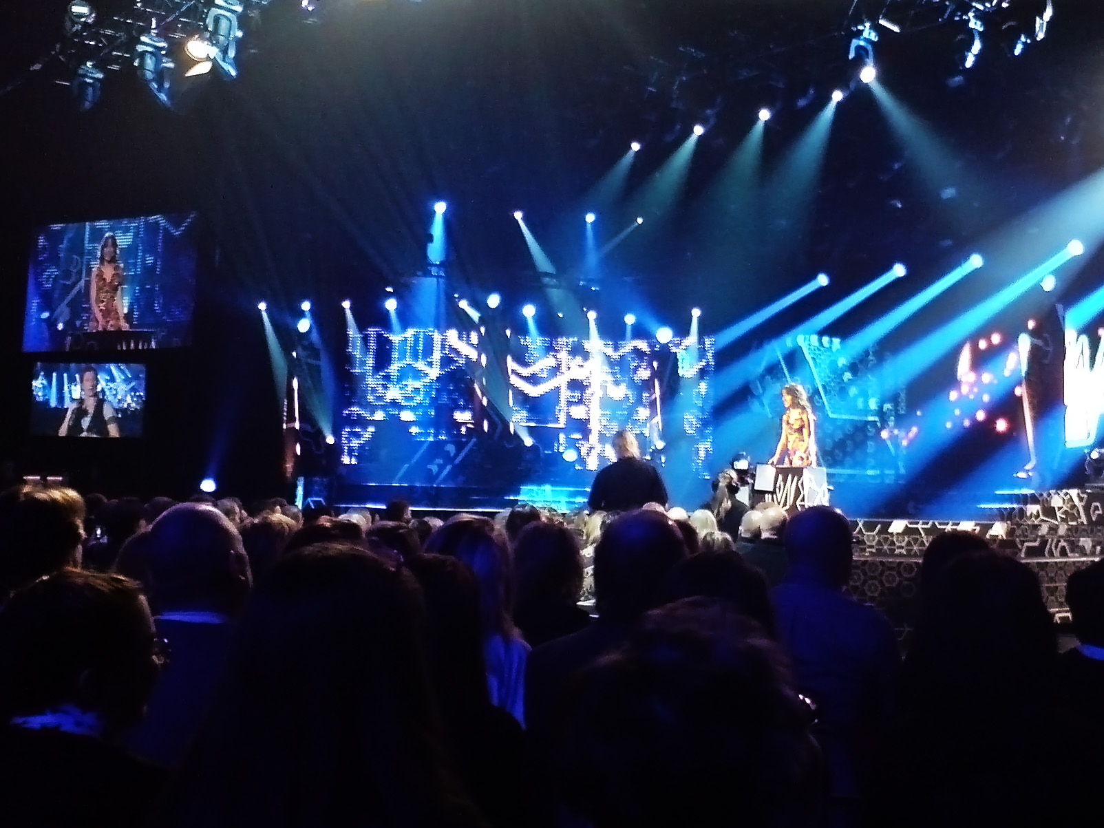 Host Petra Mede in Leksand, Sweden during Melodifestivalen, the Swedish qualifier to Eurovision Song Contest.